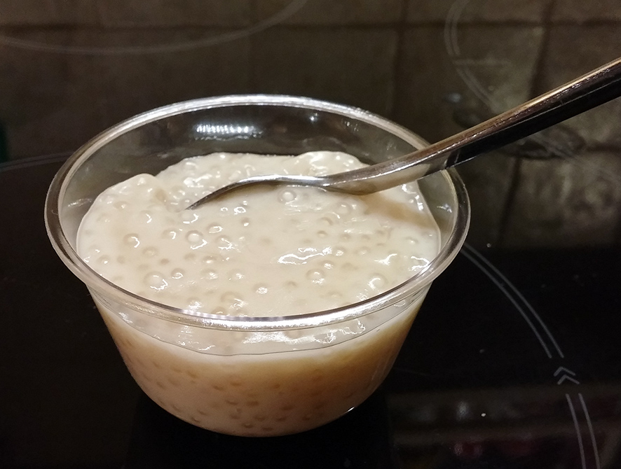 Tapioca